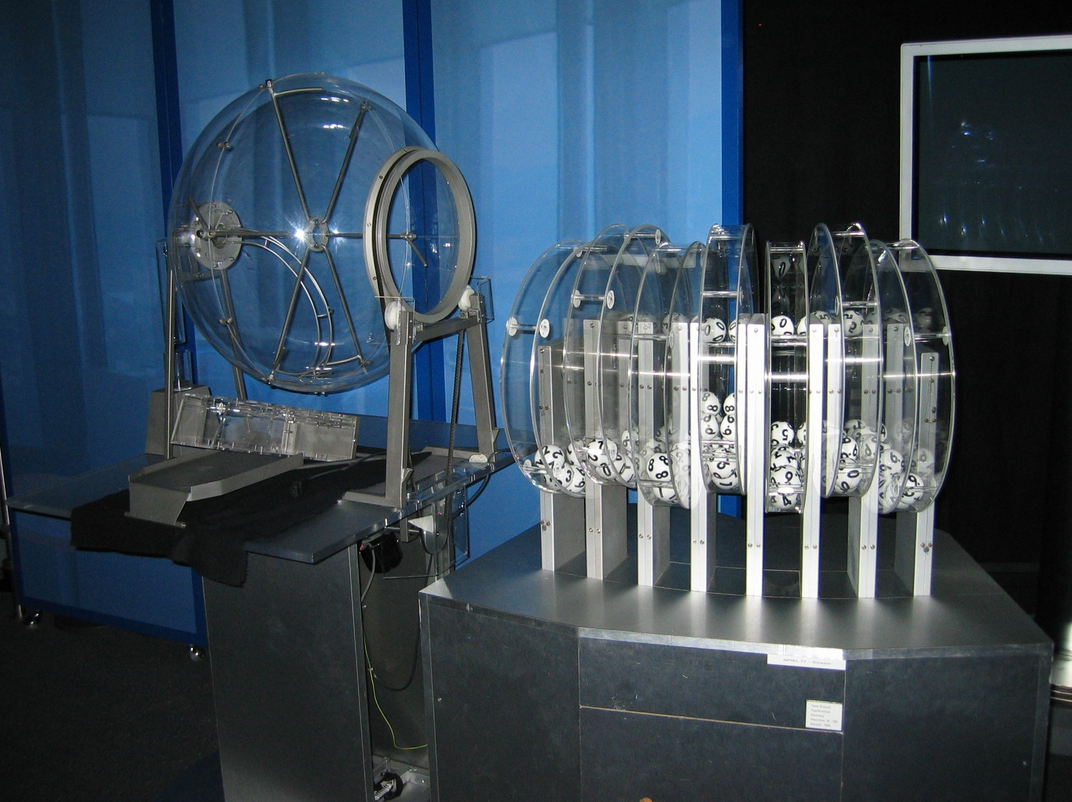 Equipment of Zusatzzahl der Ziehung der Lottozahlen and Spiel 77 (lottery) at the Television studio of Hessischer Rundfunk in Main Tower, Frankfurt am Main